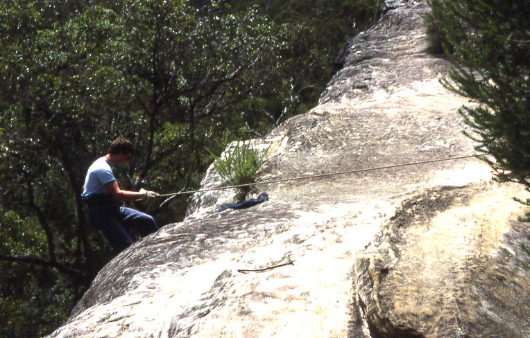 Abseiling in bush near Cliff Avenue, North Wahroonga, New South Wales, Sydney, photo by Sardaka (talk) 08:45, 7 January 2008 (UTC)